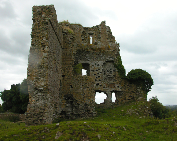 Carrick Castle, County Kildare